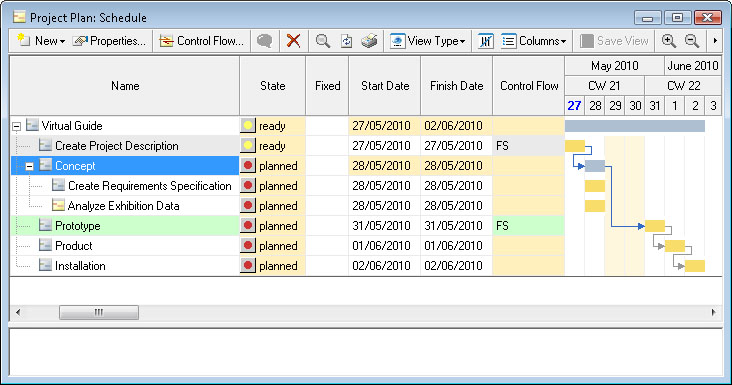 screenshot of the project management software in-STEP BLUE